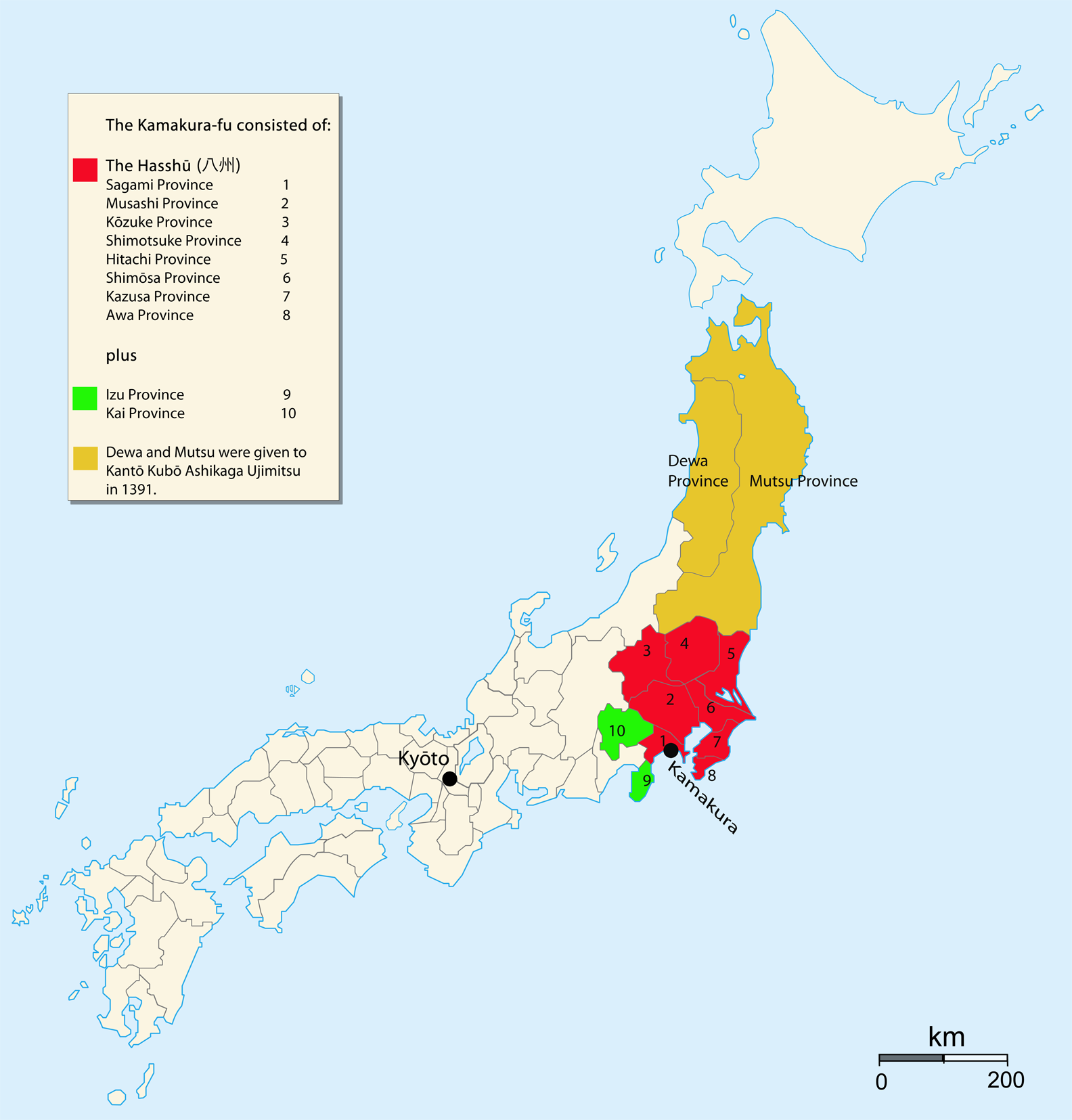 A map of the Kamakura-fu in 1391